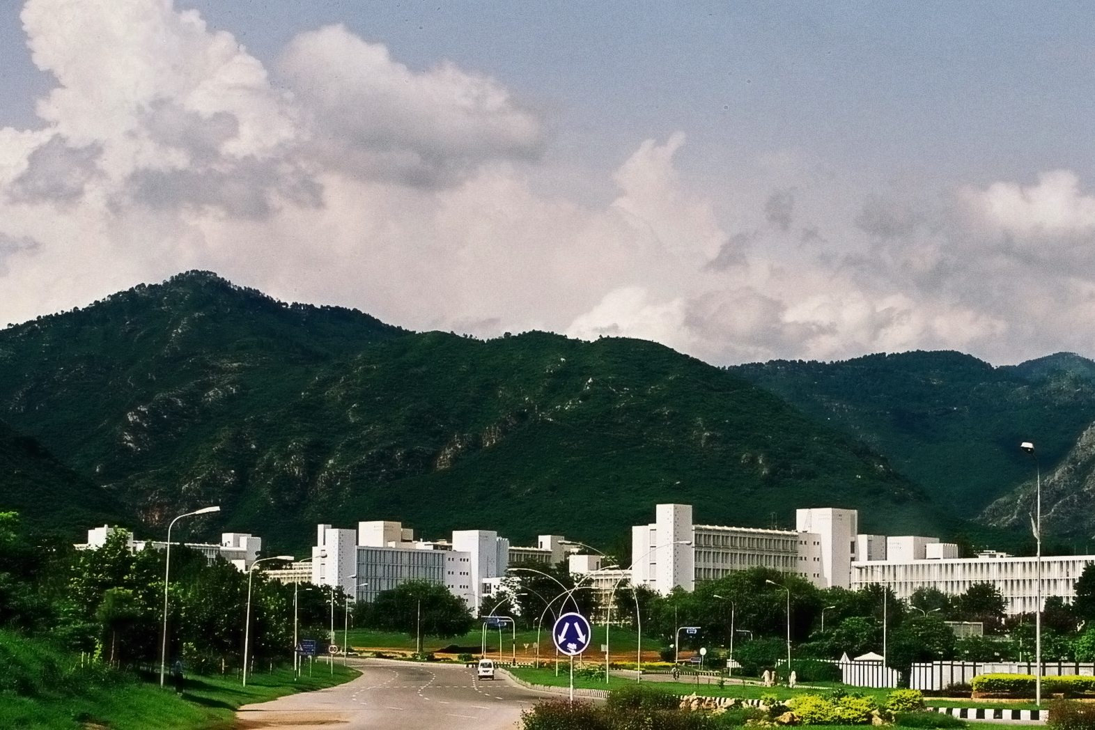 Pak Secretariat buildings This is a photo of a monument in Pakistan identified as the ICT-12